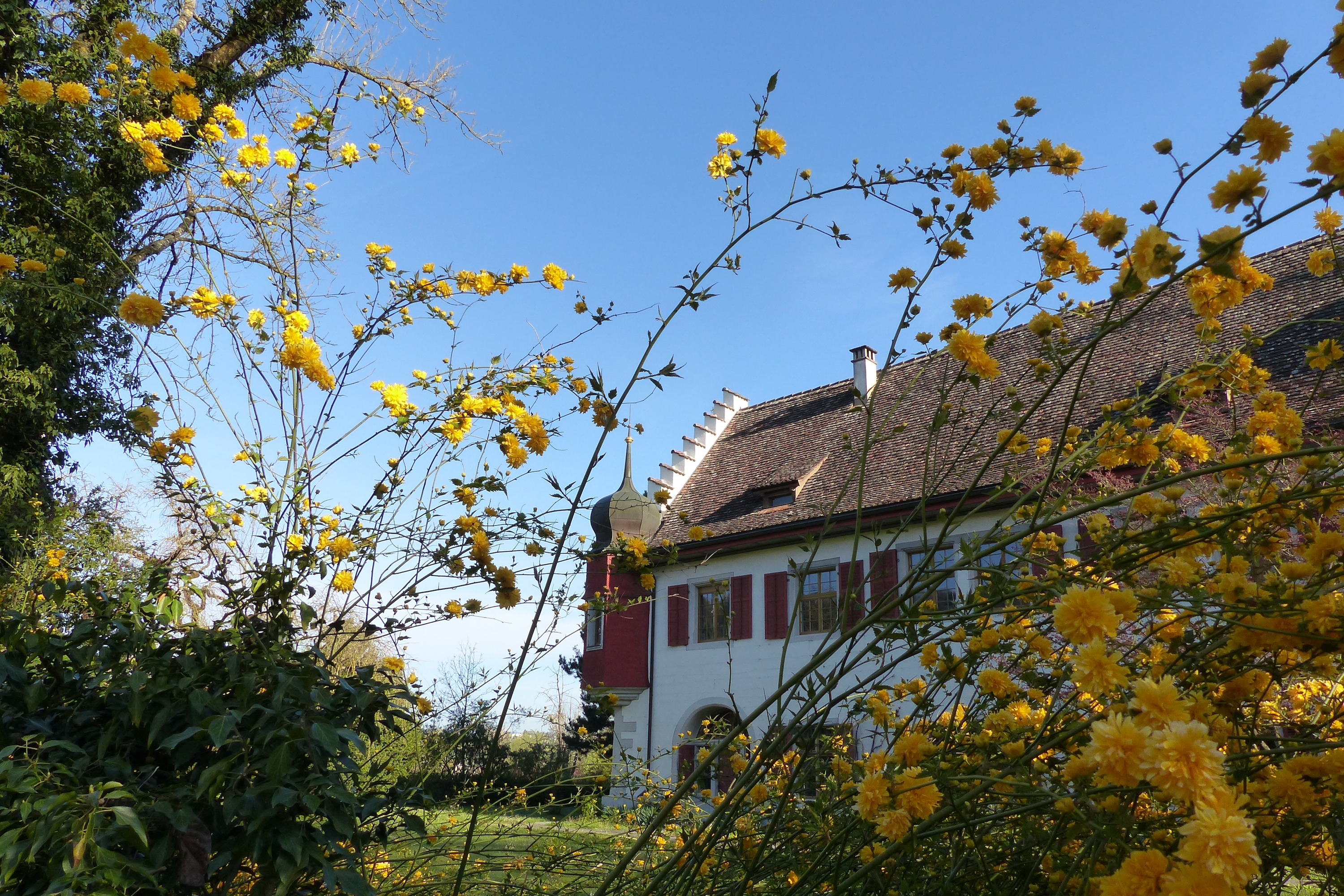 Iron Library in the Paradise Estate, Schlatt, Switzerland.